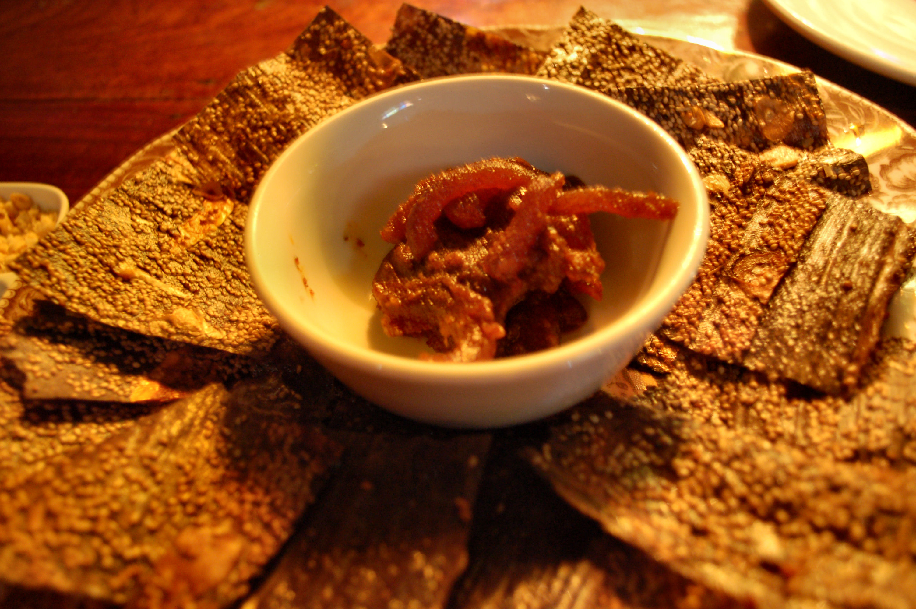 Mekong weed algal appetizer in Vientiane - ISO code LA-VI.